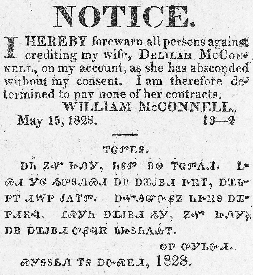 Bilingual notice in English and Cherokee stating that William McConnell will no longer pay the debts of his wife Delilah McConnell as she has left him. Published in the "Cherokee Phoenix", New Echota, Georgia. Published in "American women : a Library of Congress guide for the study of women's history and culture in the United States", edited by Sheridan Harvey [et al.]. Washington : Library of Congress, 2001, p. [i]. Transcription NOTICE. I HEREBY forewarn all persons against crediting my wife, DELILAH McCON-NELL, on my account, as she has absconded without my consent. I am therefore de-termined to pay none of her contracts. WILLIAM McCONNELL. May 15, 1828 13—2 ― ᎢᏣᏛᎬᎦ. ᎠᏂ ᏃᏉ ᏥᏁᎩ, ᏂᎦᏛ ᏴᏫ ᎢᏣᏛᎪᏗ. ᏞᏍᏗ ᎩᎶ ᏜᎤᏚᏁᏍᏗ ᎠᏴ ᎠᏆᎫᏴᏗ ᎨᏒᎢ, ᎠᏆᏓᏢᎢ ᏗᎳᏢ ᏧᎪᎢᏛ. ᎠᏉᎯᏳᏅᏰᏃ ᏂᎨᏒᎾ ᎠᏆᏢᏗᎡᎸ. ᏝᏍᎩᏂ ᎠᏆᎫᏴᏗ ᏱᎩ, ᏃᏉ ᏥᏁᎩ, ᎠᏴ ᎠᏆᎫᏴᏗ ᎤᏰᎸᏒ ᏓᏥᏚᏂᎪᎲᎢ. ᏫᏢ ᎤᎩᏏᏅᏗ. ᏍᎩᎦᏚᏏᏁ ᎢᎦ ᎠᏅᏍᎬᏗ, 1828.